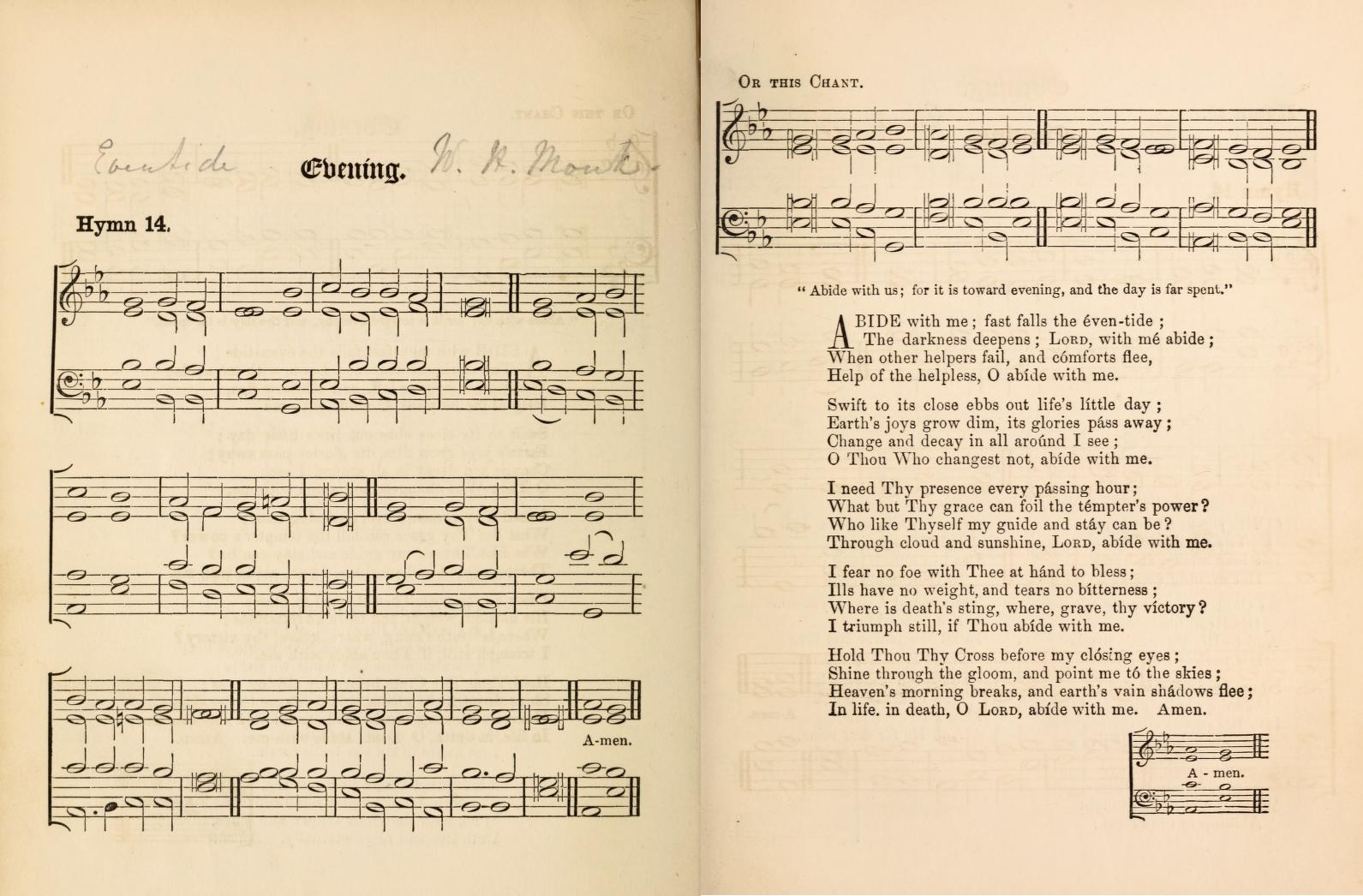 Abide With Me, first publication with the tune Eventide by W. H. Monk (Hymns Ancient and Modern, 1861)